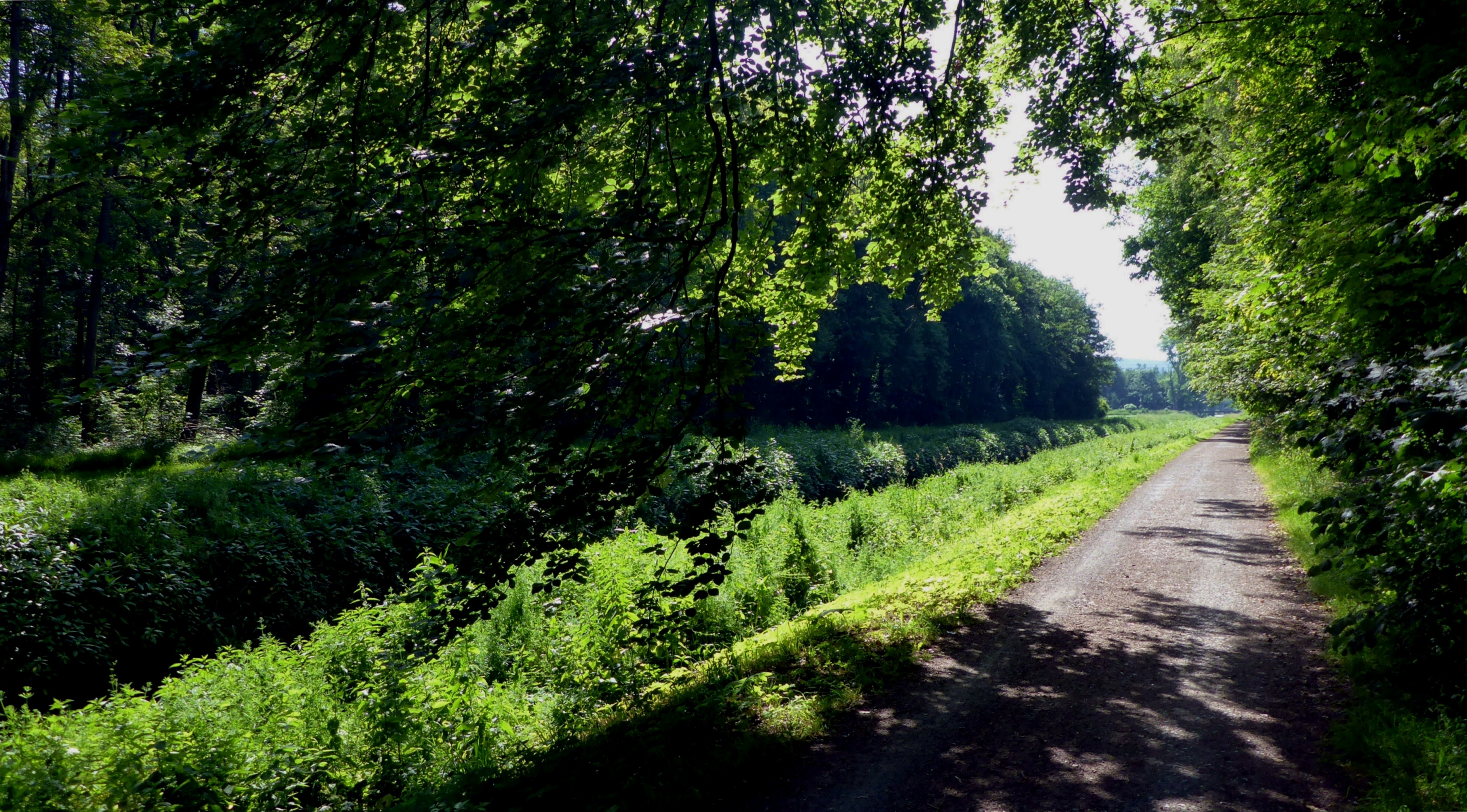 Landschaftsschutzgebiet „Füllbruch-Vokkenau“ is a Protected landscape area in Baden-Württemberg, Germany.